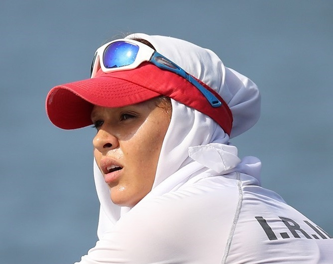 2016 Summer Olympics - Rowing - Women's single sculls